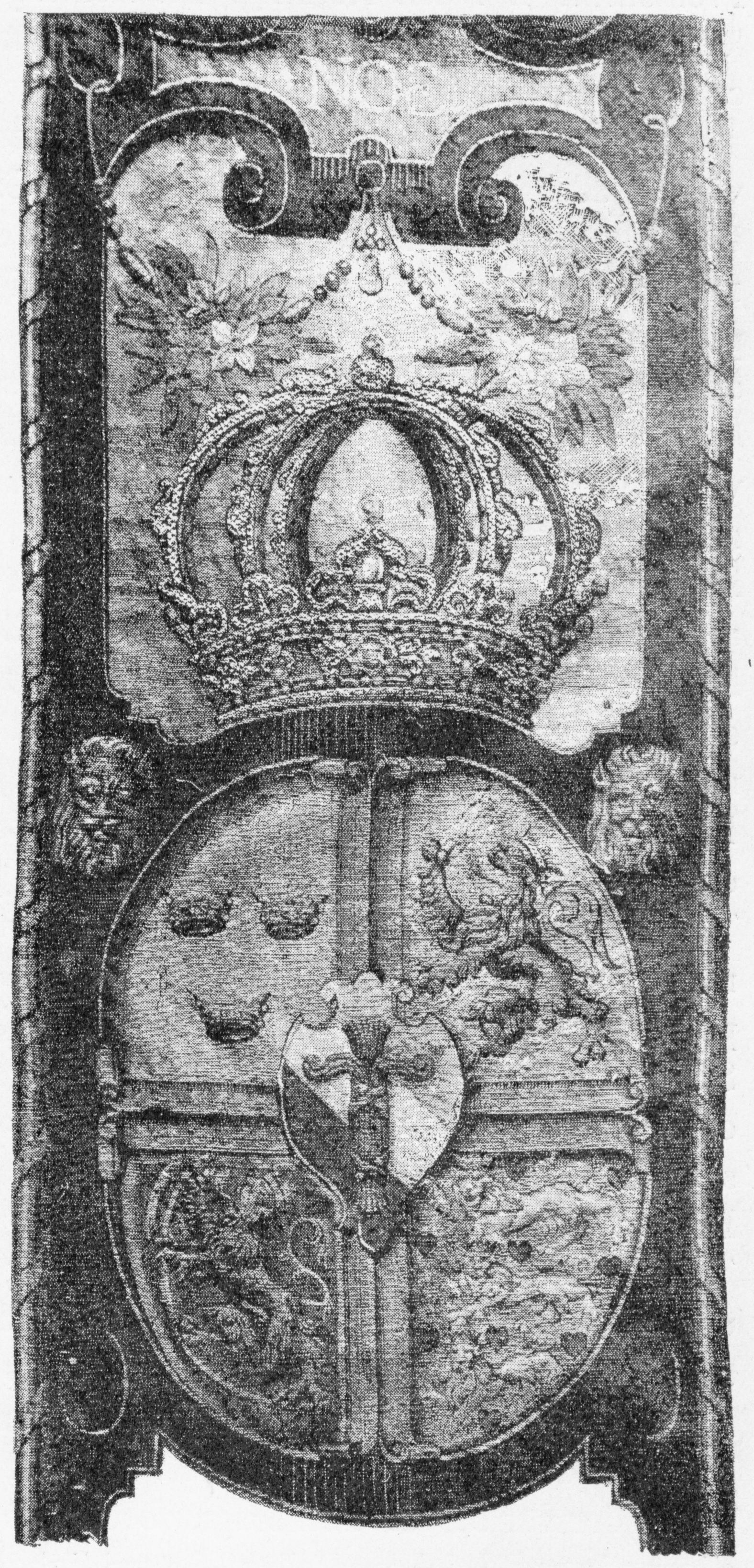 The coat of arms of pretence used by Eric XIV of Sweden, also including the arms of Norway and Denmark (the two lower fields). Detail from a 16th century tapestry depicting King Sven.